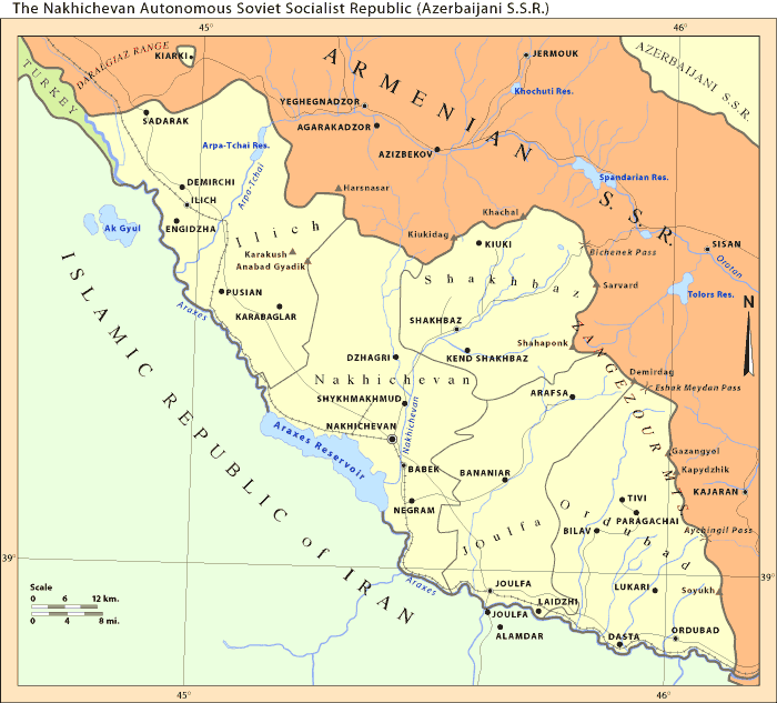 Nakhichevan in the Soviet Union. The Nakhichevan ASSR